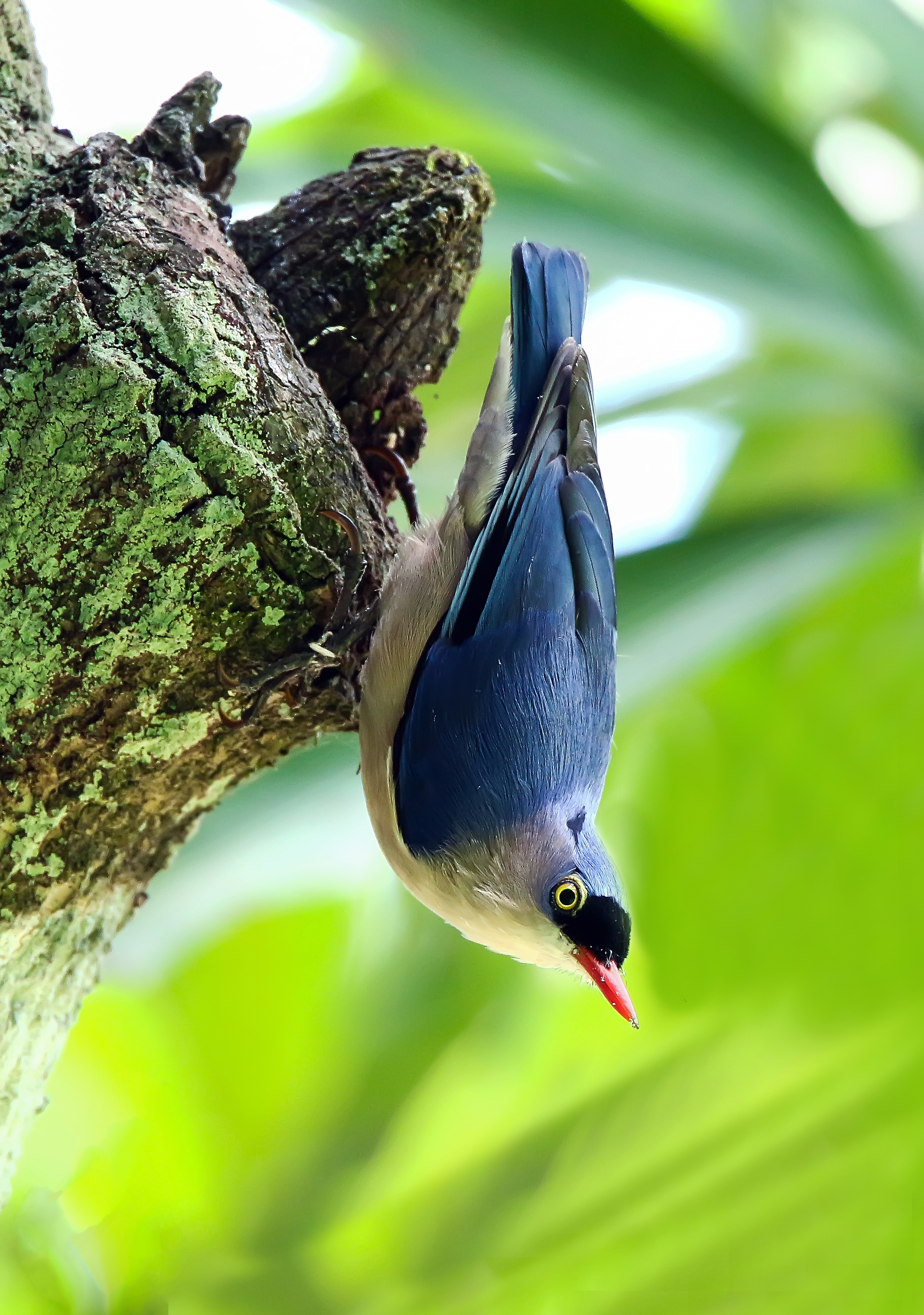 Velvet-fronted nuthatch (Sitta frontalis)